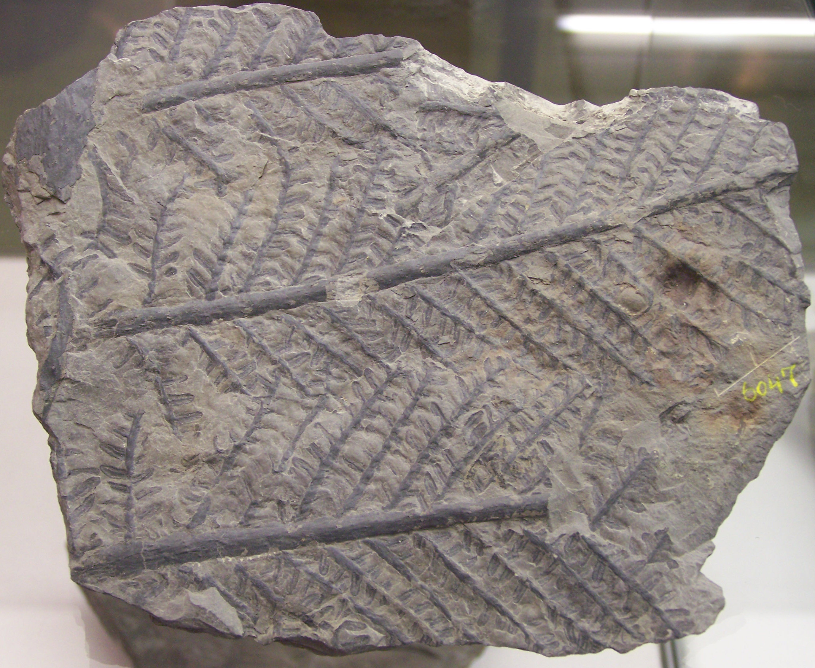 Fossil of the extinct plant species Pecopteris polymorpha (Filicopsida, Pteridophyta), Upper Carboniferous of Reisbach, Germany. Specimen is ca. 25 cm in width. Collection of the Universiteit Utrecht.